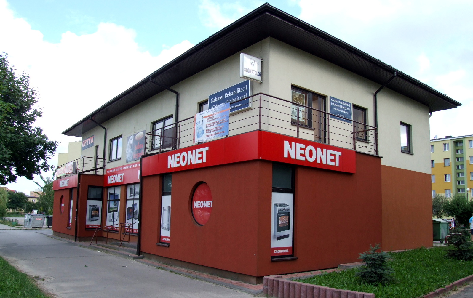 NEONET shop is Ostrowiec Swietokrzyski in district Ogrody